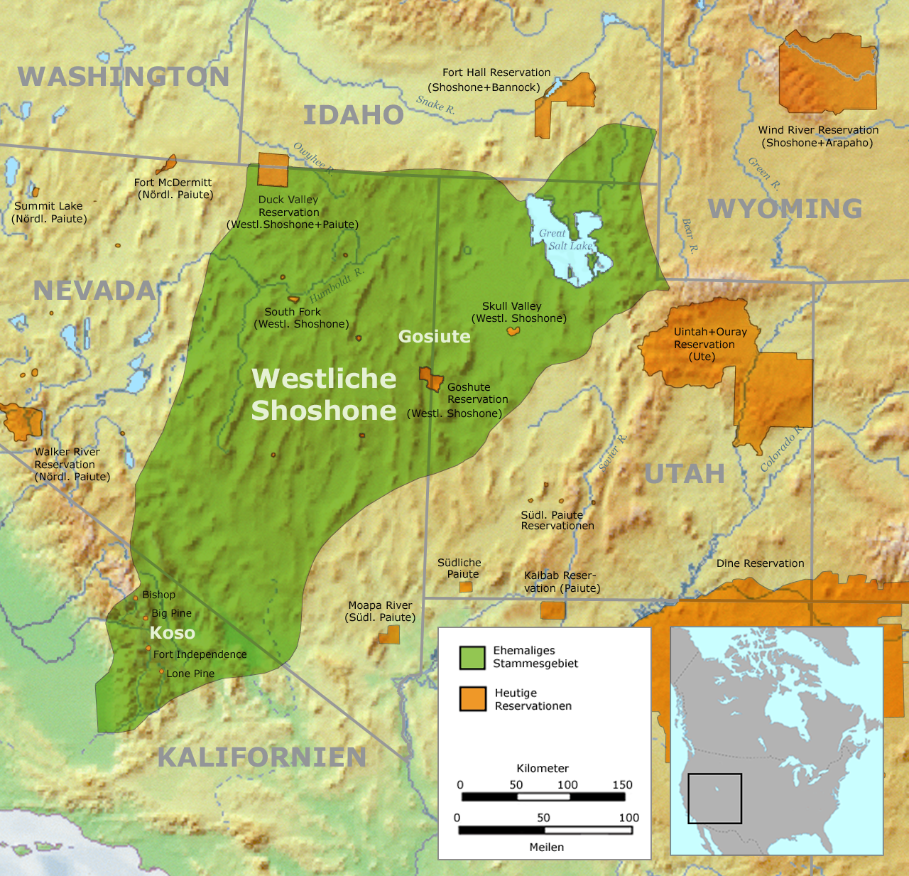 Tribal territory of Western Shoshone